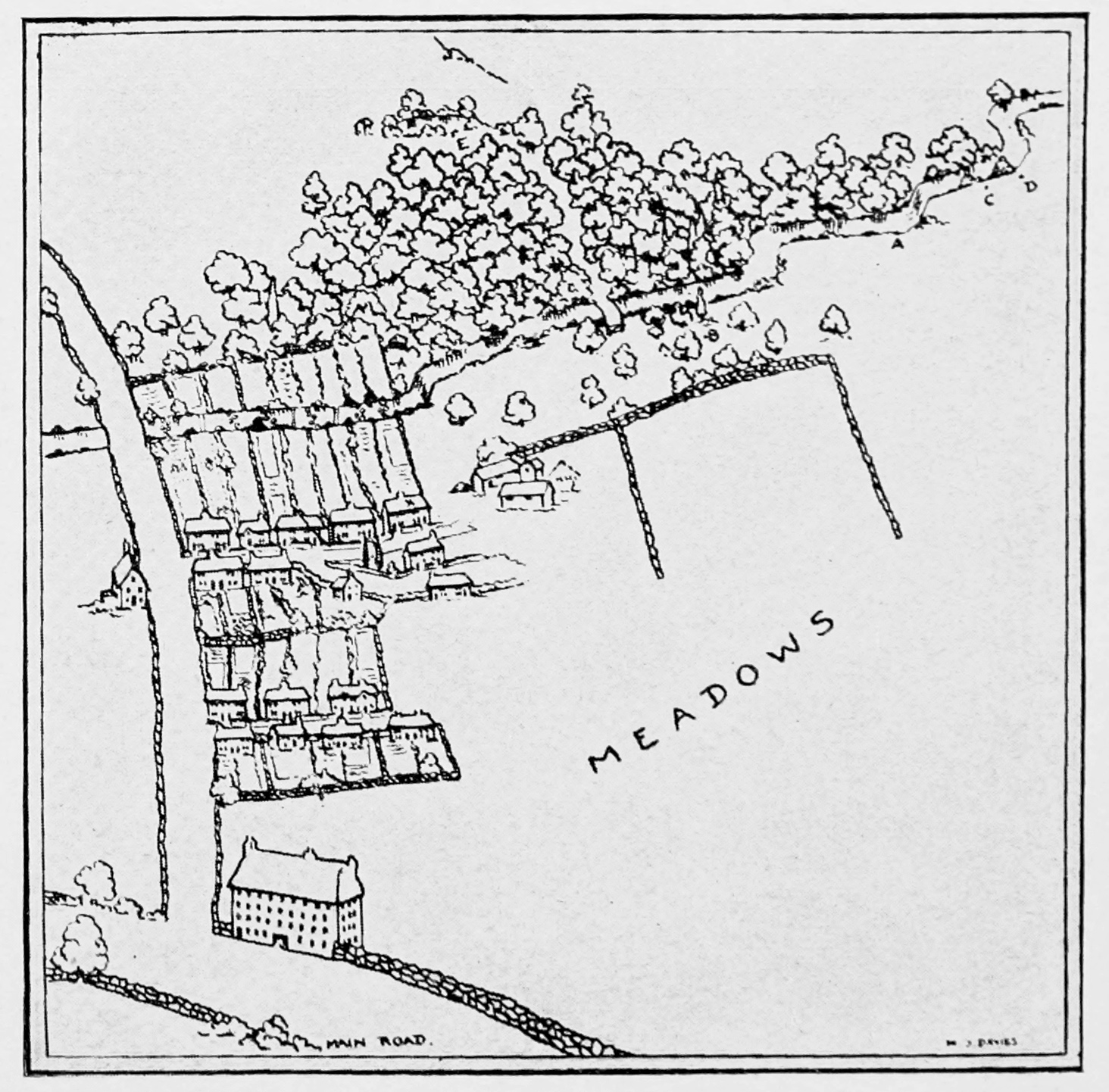 Site of photographs of Cottingley fairies are marked with A, B, C, D, E, near the river Beck